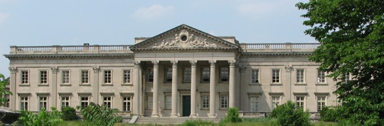 Photograph of Lynnewood Hall taken by George Bezak and released into the public domain.